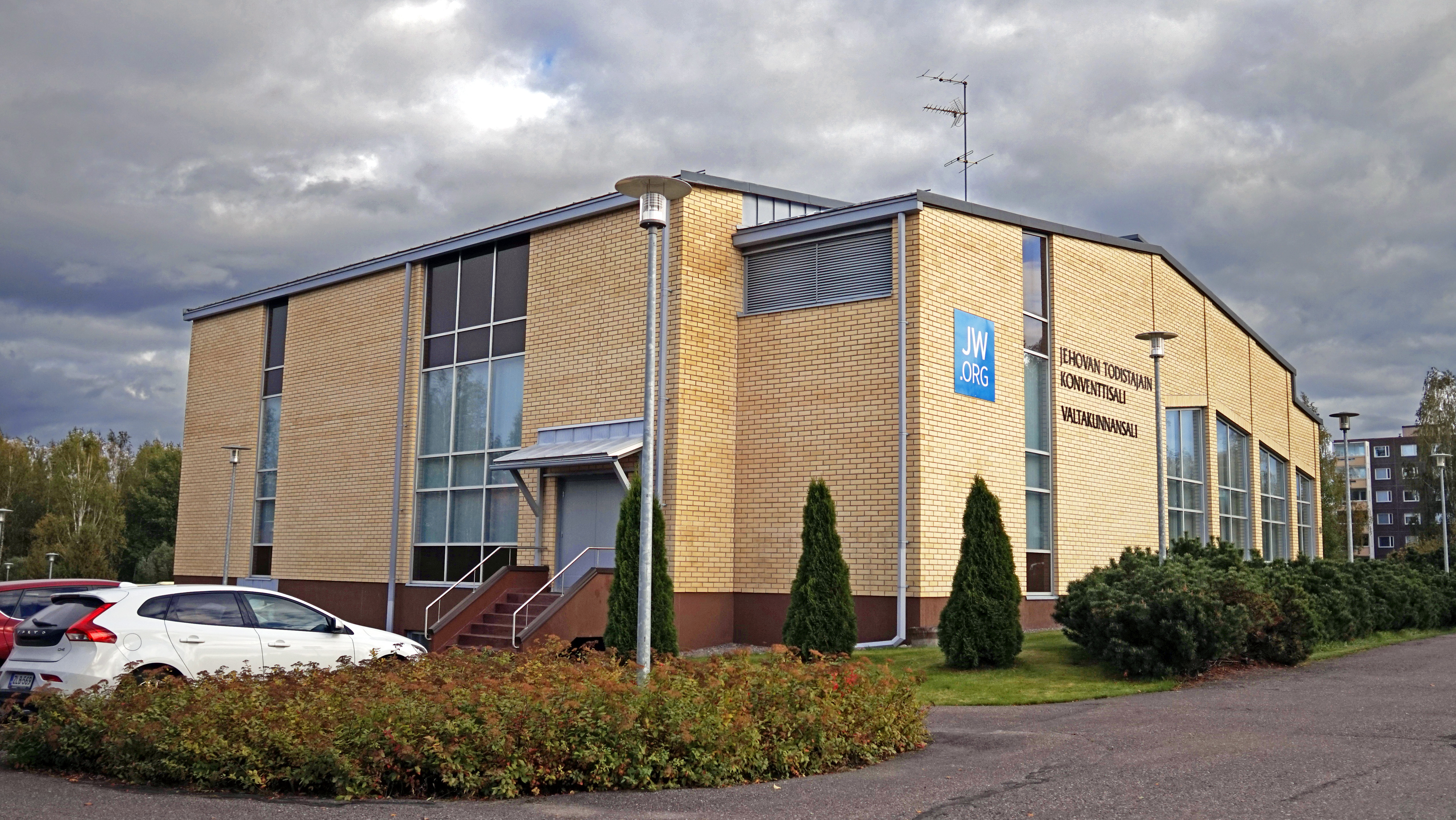 Jehovah's Witnesses' Assembly Hall in Varkaus, Finland.